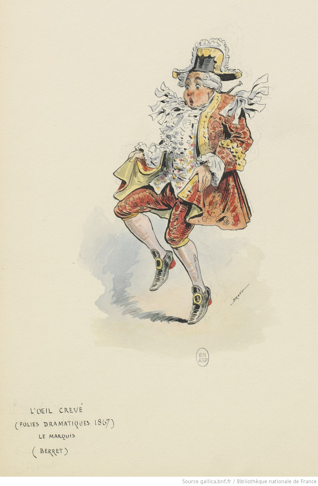 Costume design for operetta